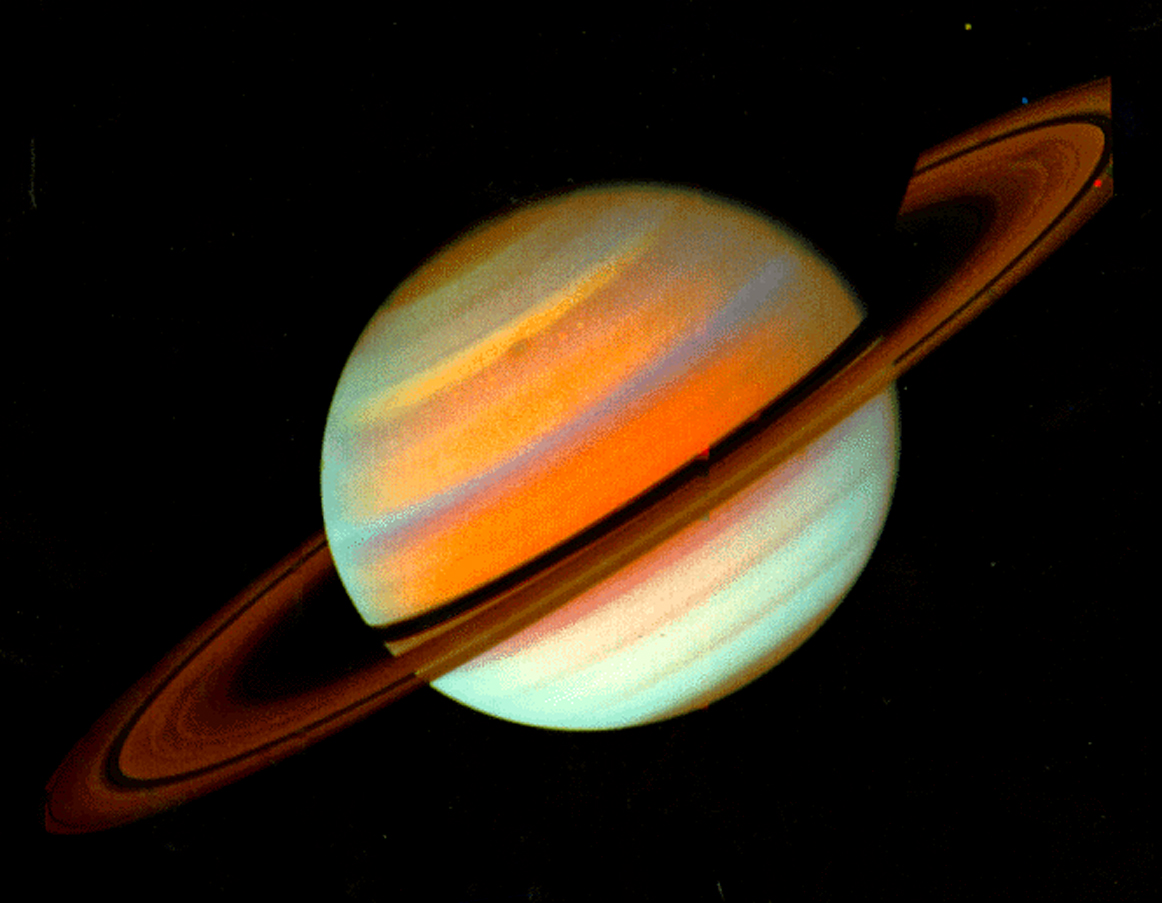 Voyager 1 color-enhanced image of Saturn taken on 18 October 1980, 25 days before closest approach. The large violet cloud belt at the center is the North Equatorial Belt. Above this is Saturn's North Temperate Belt, which exhibits bright storm-like features. The Southern hemisphere, below the rings, appears bluer due to the scattering of sunlight and viewing geometry, Saturn is 120,000 km in diameter and north is at 11:00. The color was enhanced using images taken through the ultraviolet, green, and violet filters.